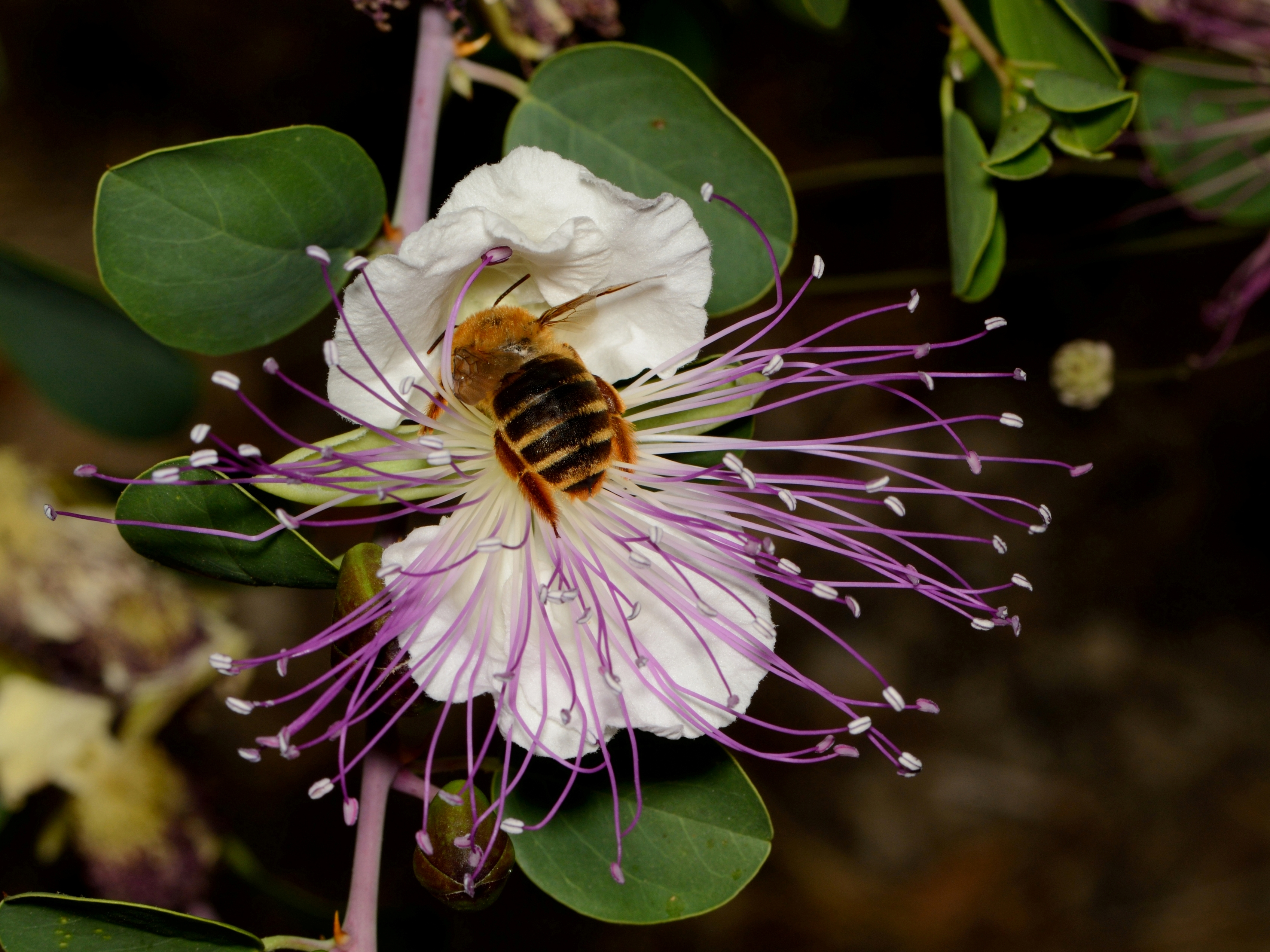 Xylocopa olivieri, female foraging on Capparis zoharyi, Mount Meron, Upper Galilee, Israel, June 22, 2012.